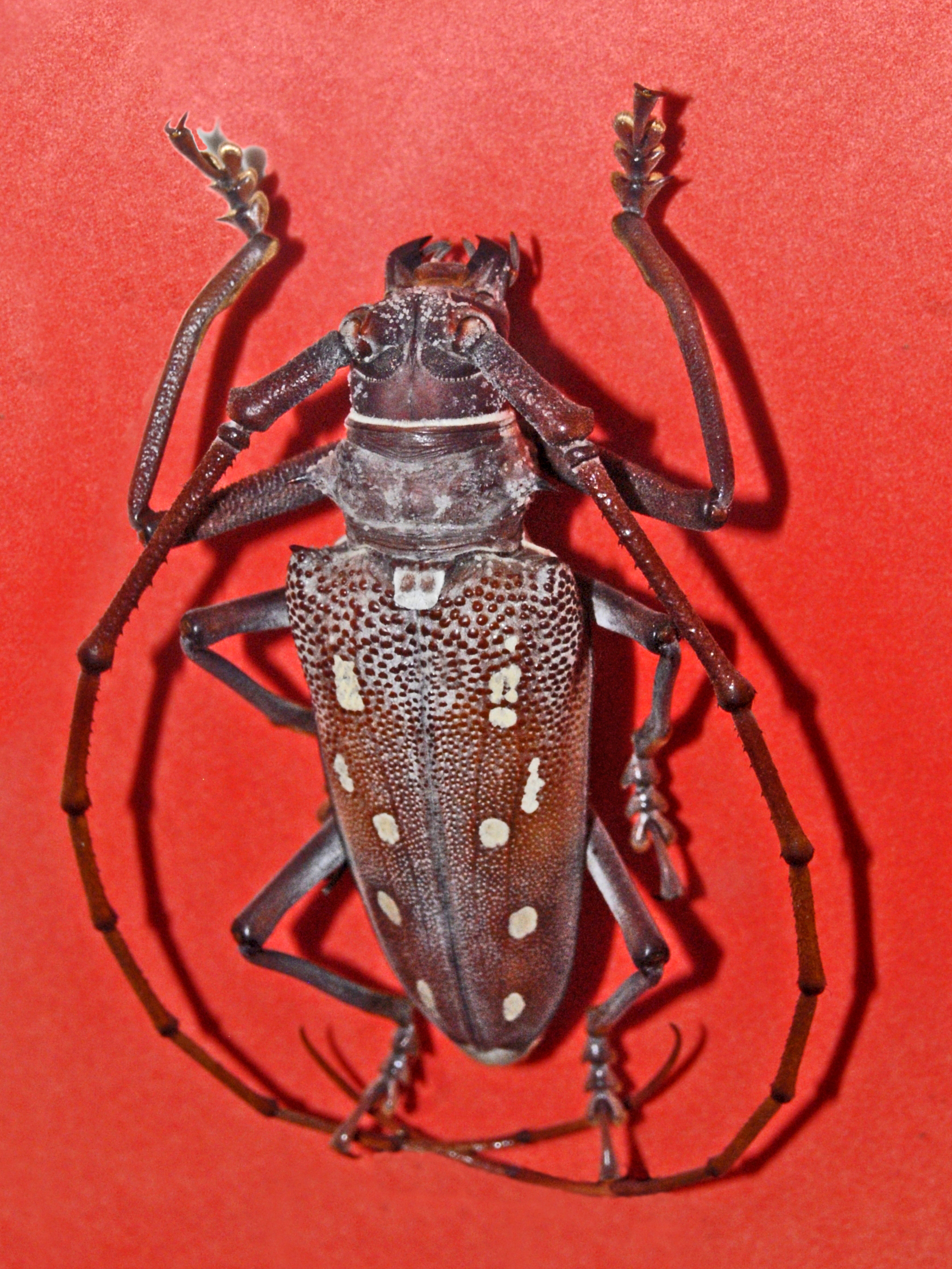 Museum specimen of Batocera boisduvali. On display at the Museo Civico di Storia Naturale di Milano